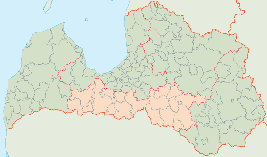 Location map of Zemgale Region, Latvia.